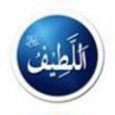 Al-Latif / The Gentle / The subtly kind is a name of God in Islam, is a name of Allah.